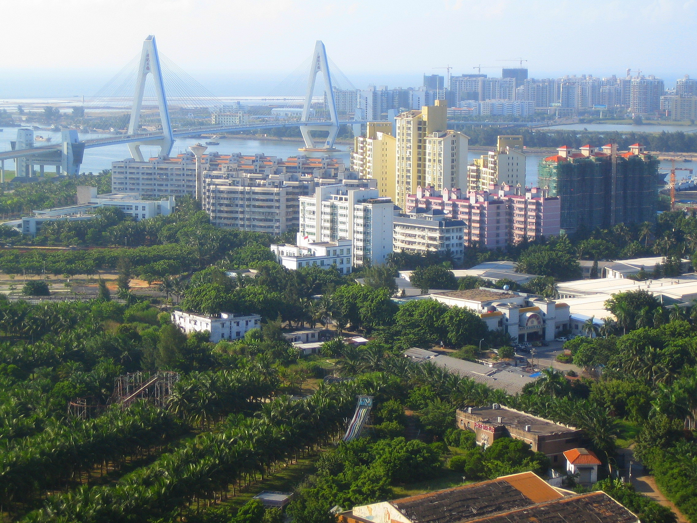 Haikou skyline showing Haikou Century Bridge crossing Haidian River, Haikou, Hainan Province, China